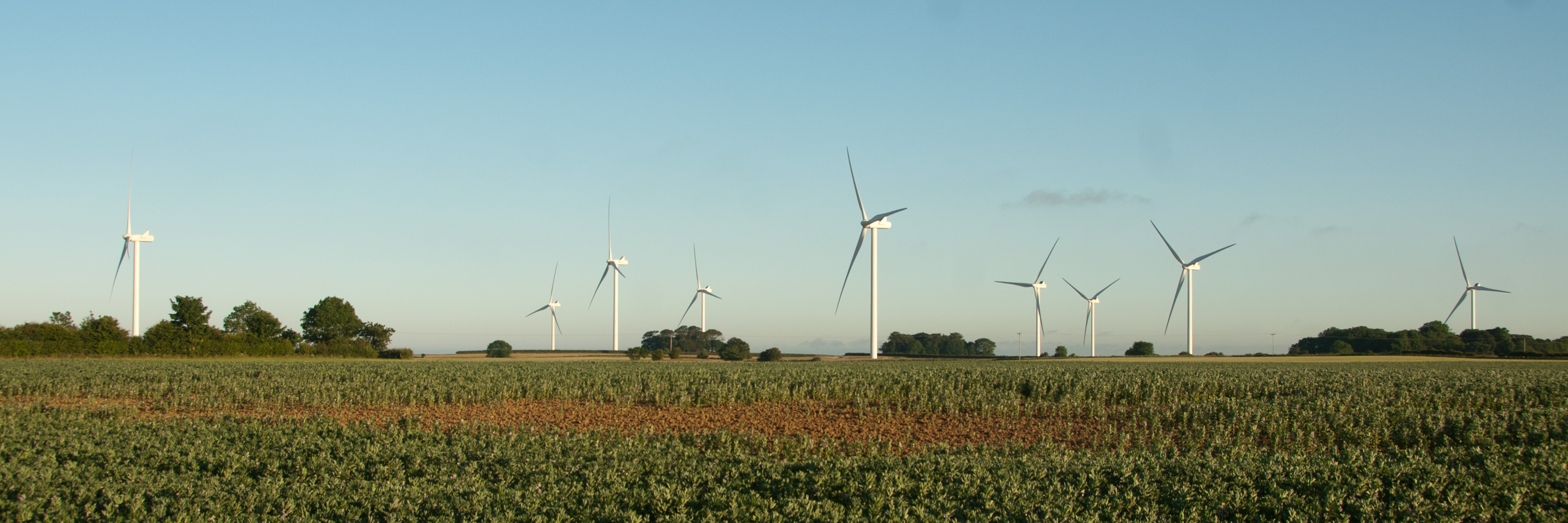 The nine turbines near Fraisthorpe in the East Riding of Yorkshire that make up Fraisthorpe Wind Farm